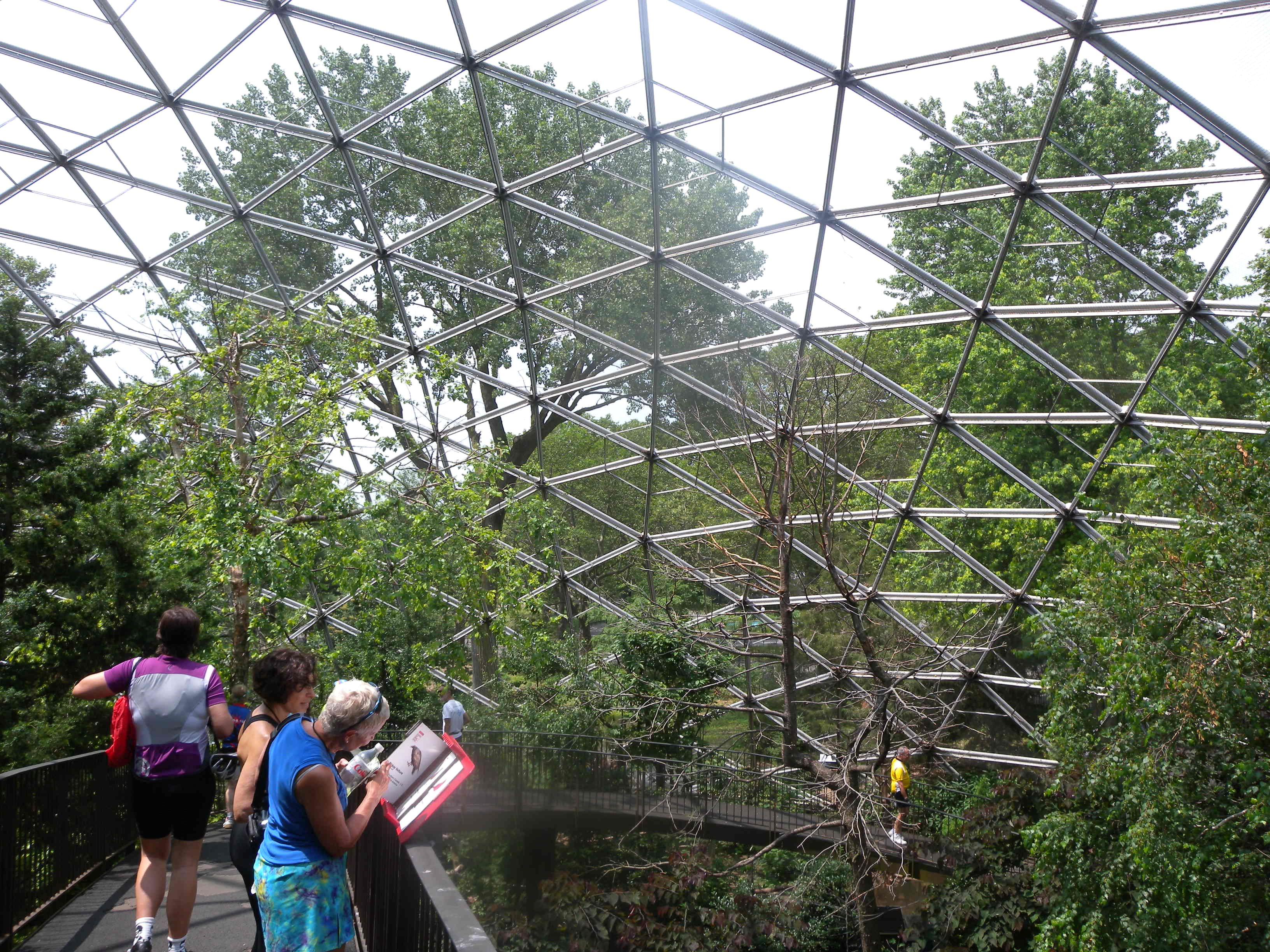 Looking west on the bridge inside the aviary on a cloudy day.